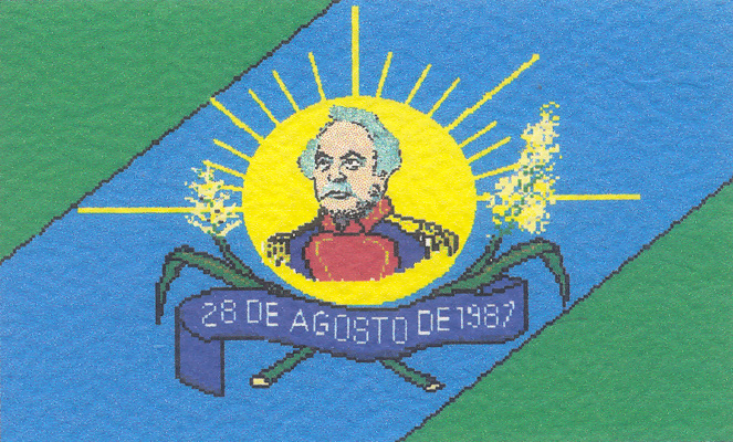 The municipal flag of J. A. Paez (Yaracuy), Venezuela